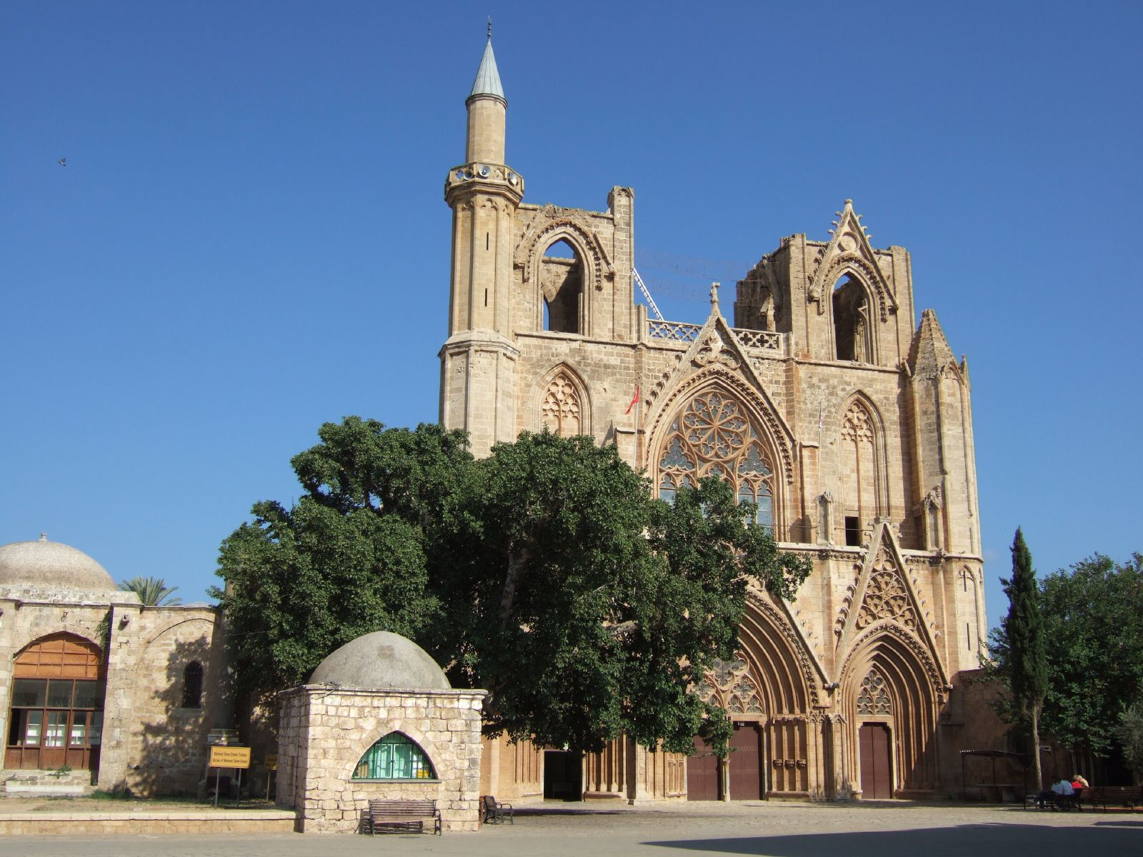 Famagusta, Ciproqcathedral 3